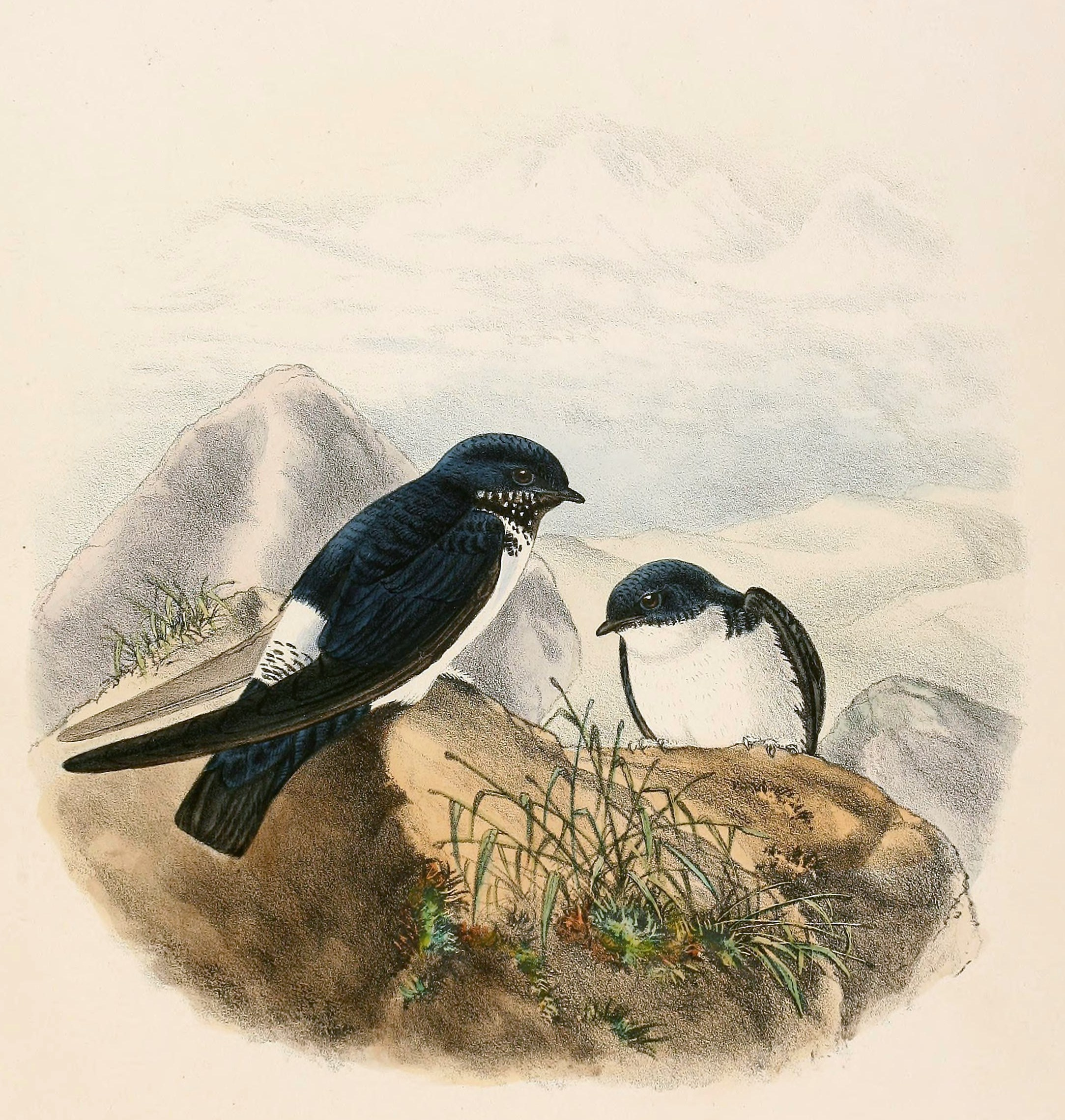 « Chelidon nipalensis » = Delichon nipalense (Nepal House Martin)